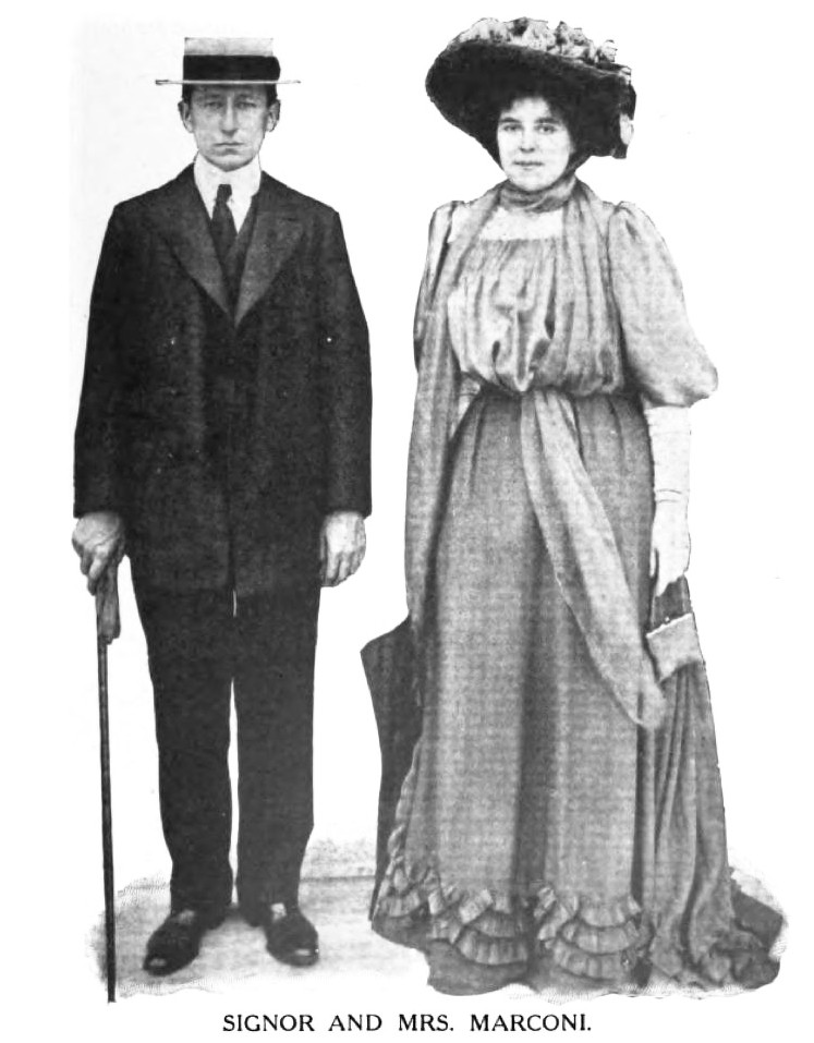 Mr & Mrs Marconi